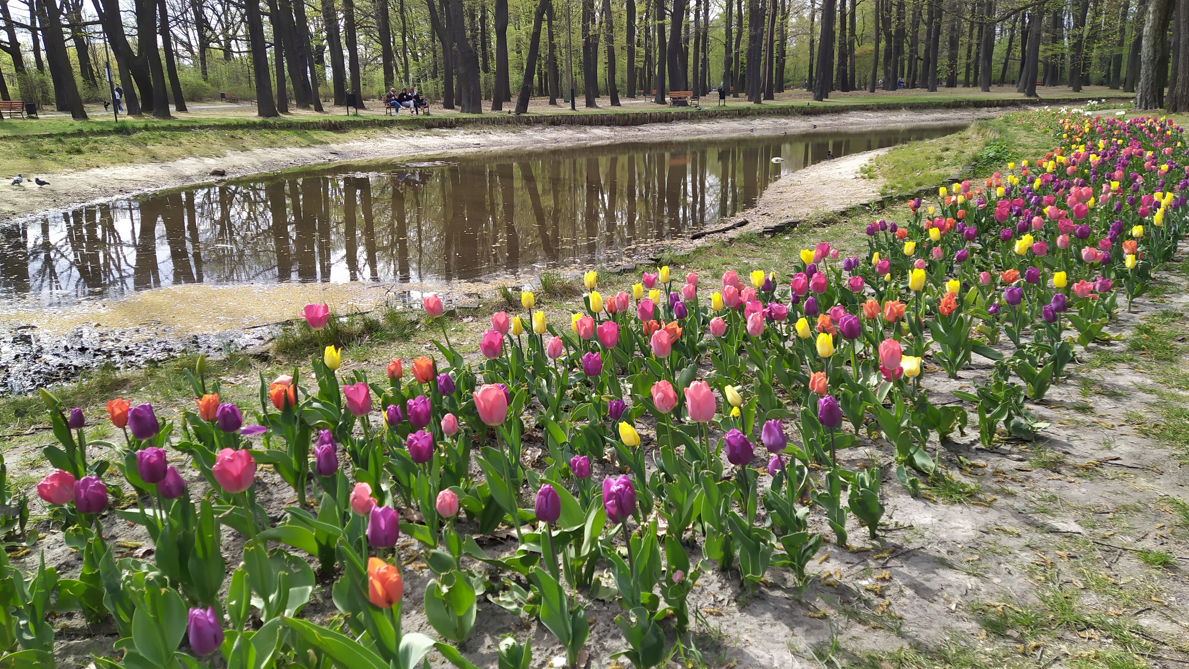 Tulips in 3rd of May Park in Łódź, April 2020